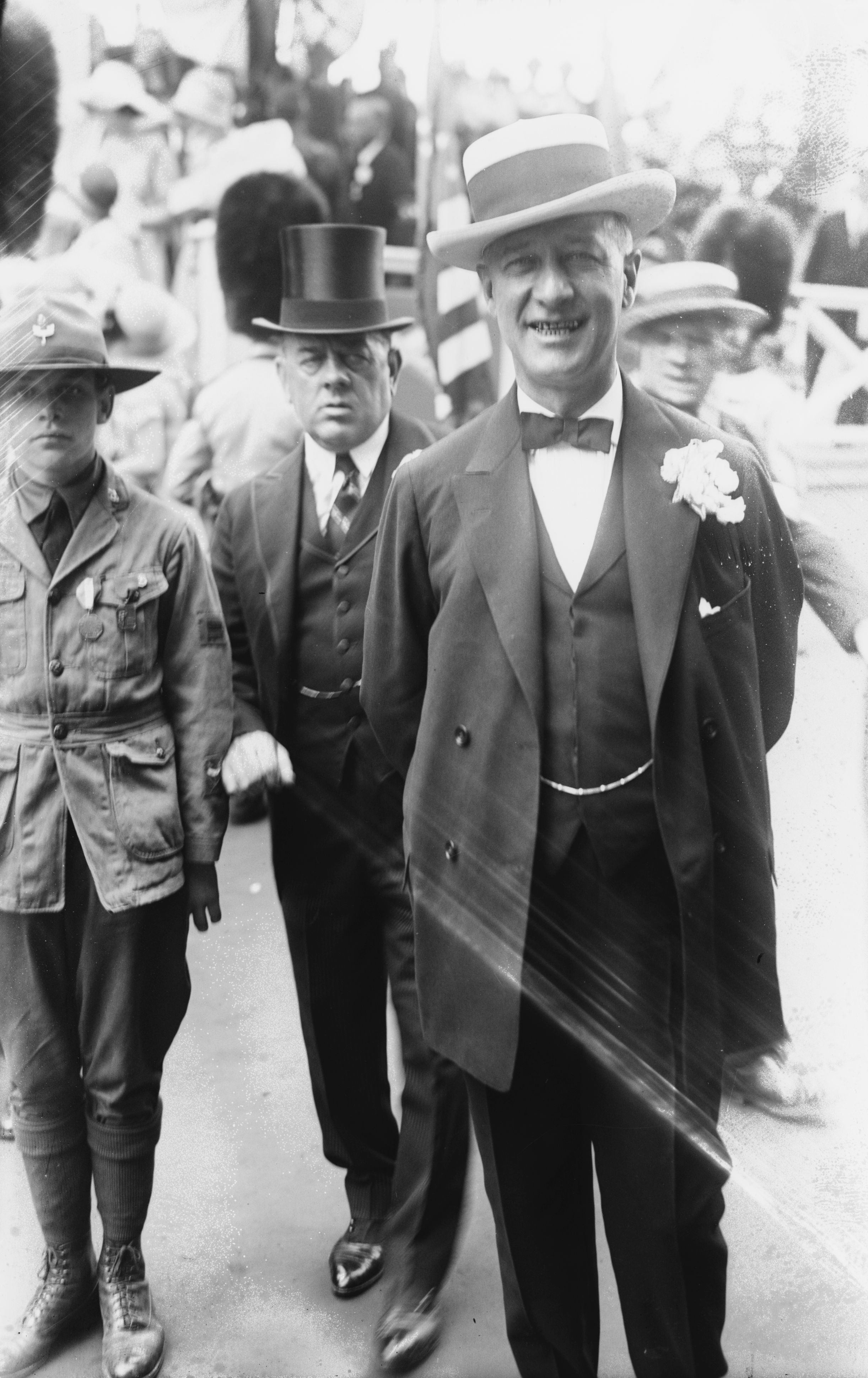 Al Smith (standing front, center right), smiling, wearing straw hat. In background right unidentified man in top hat, young man in (boyscout?) uniform.